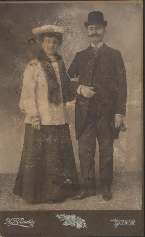 Georgi & Stefka Kozhuharov in Salonica